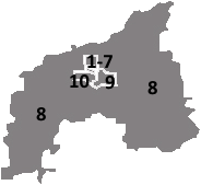 map of the constituencies in Khomas region in Namibia